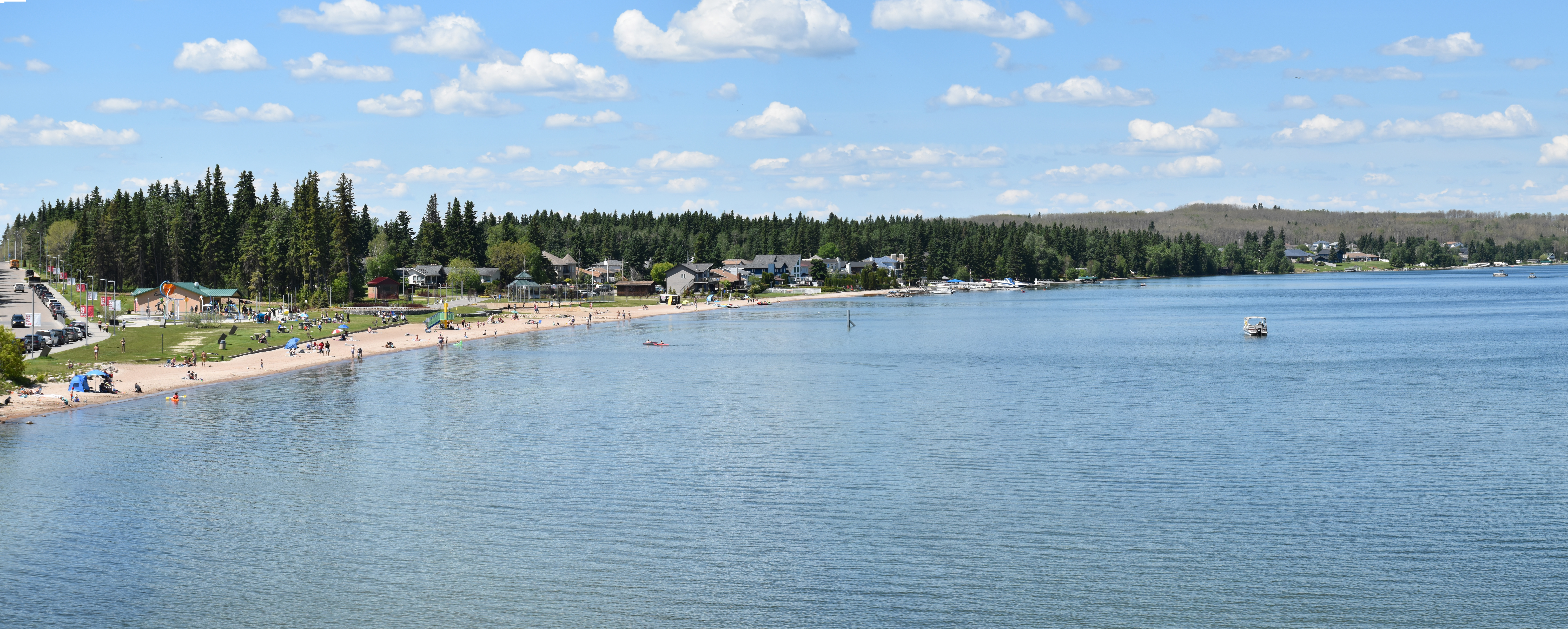 A view of Kinosoo Beach on Cold Lake from the Water Treatment Plant, located in Cold Lake, Alberta, Canada.